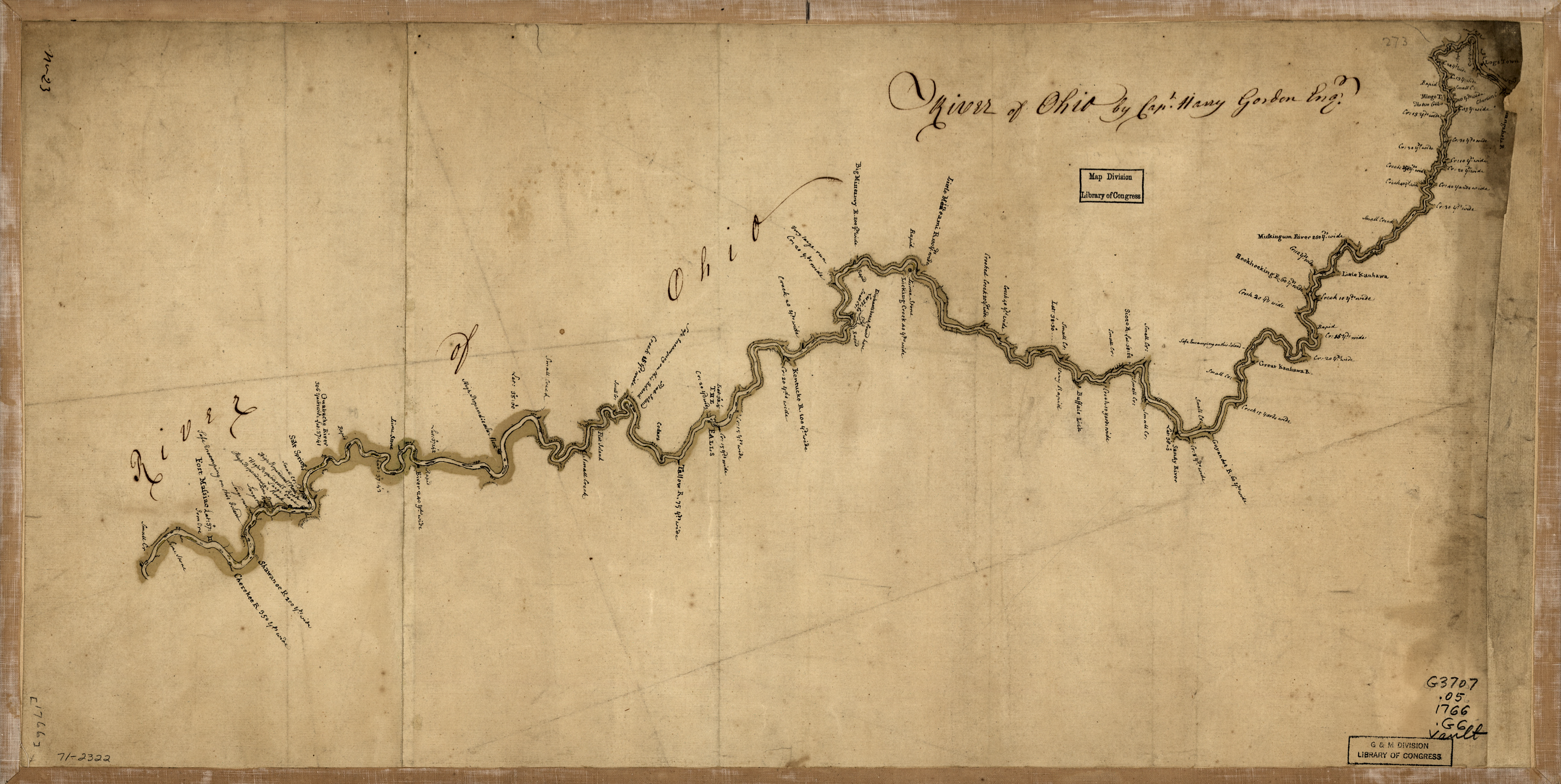 Scale ca. 1:2,000,000. Manuscript, pen-and-ink and watercolor. Has watermark. Relief shown by hachures. "No. 23." Includes latitude readings at spots along the river and notes on the width of tributaries. Reference: LC Maps of North America, 1750-1789, 782